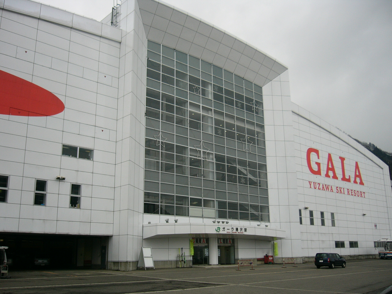 Gala-Yuzawa Station